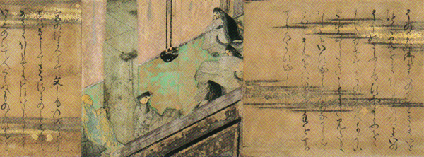 Part of the Murasaki Shikibu Diary Emaki, Hachisuka edition.